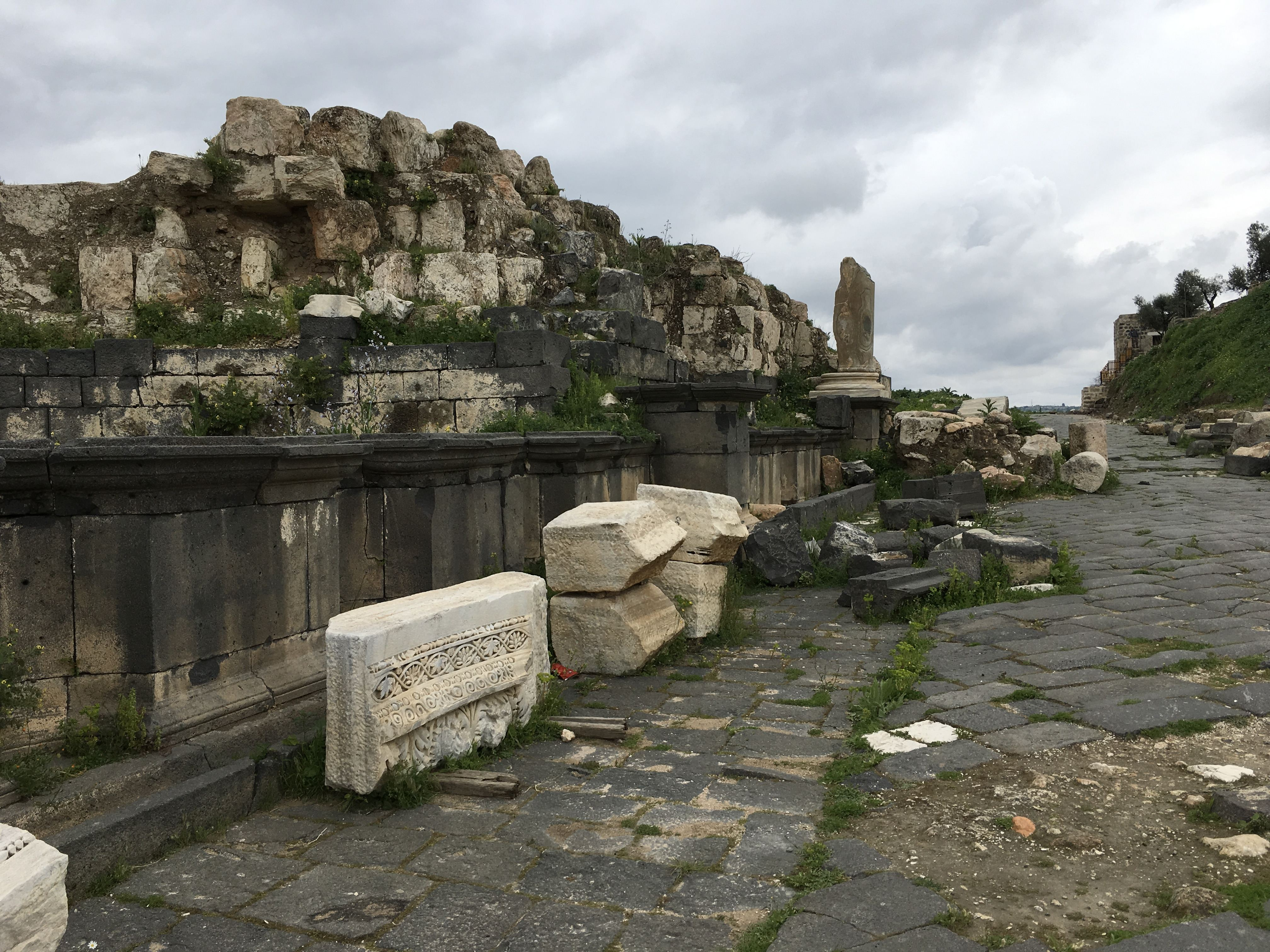 Gadara nympheum